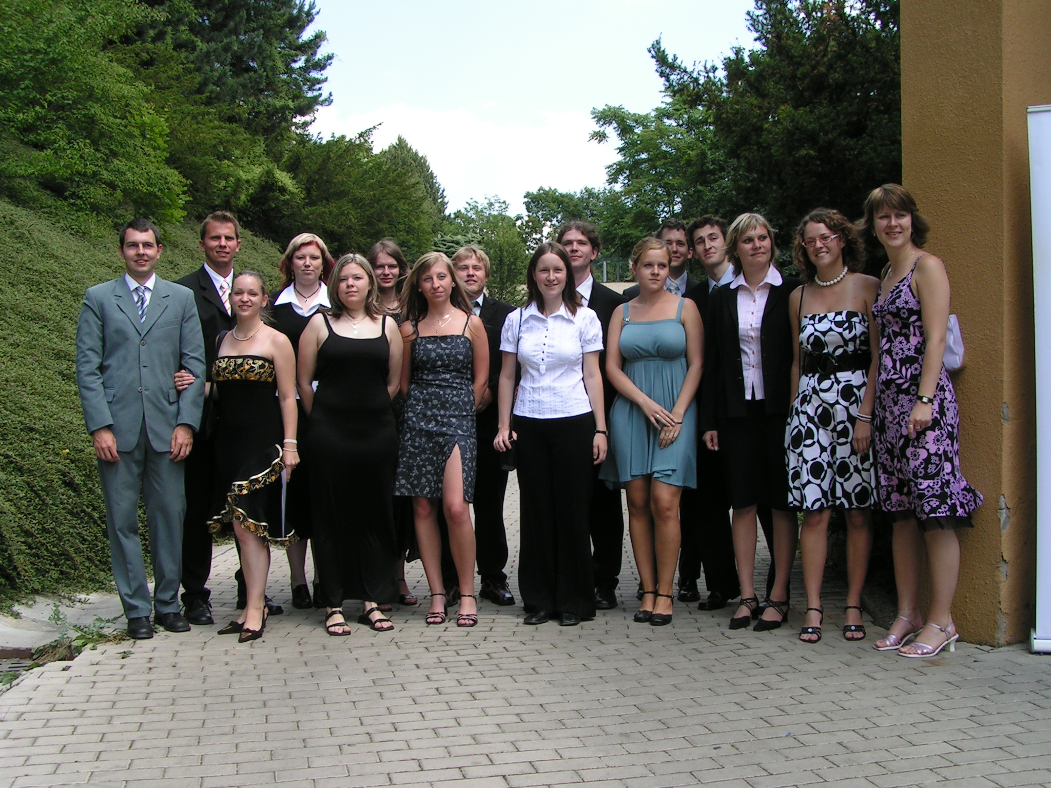 Graduates of Centrael European Studies at Department of Geography of J. E. Purkyně's University.